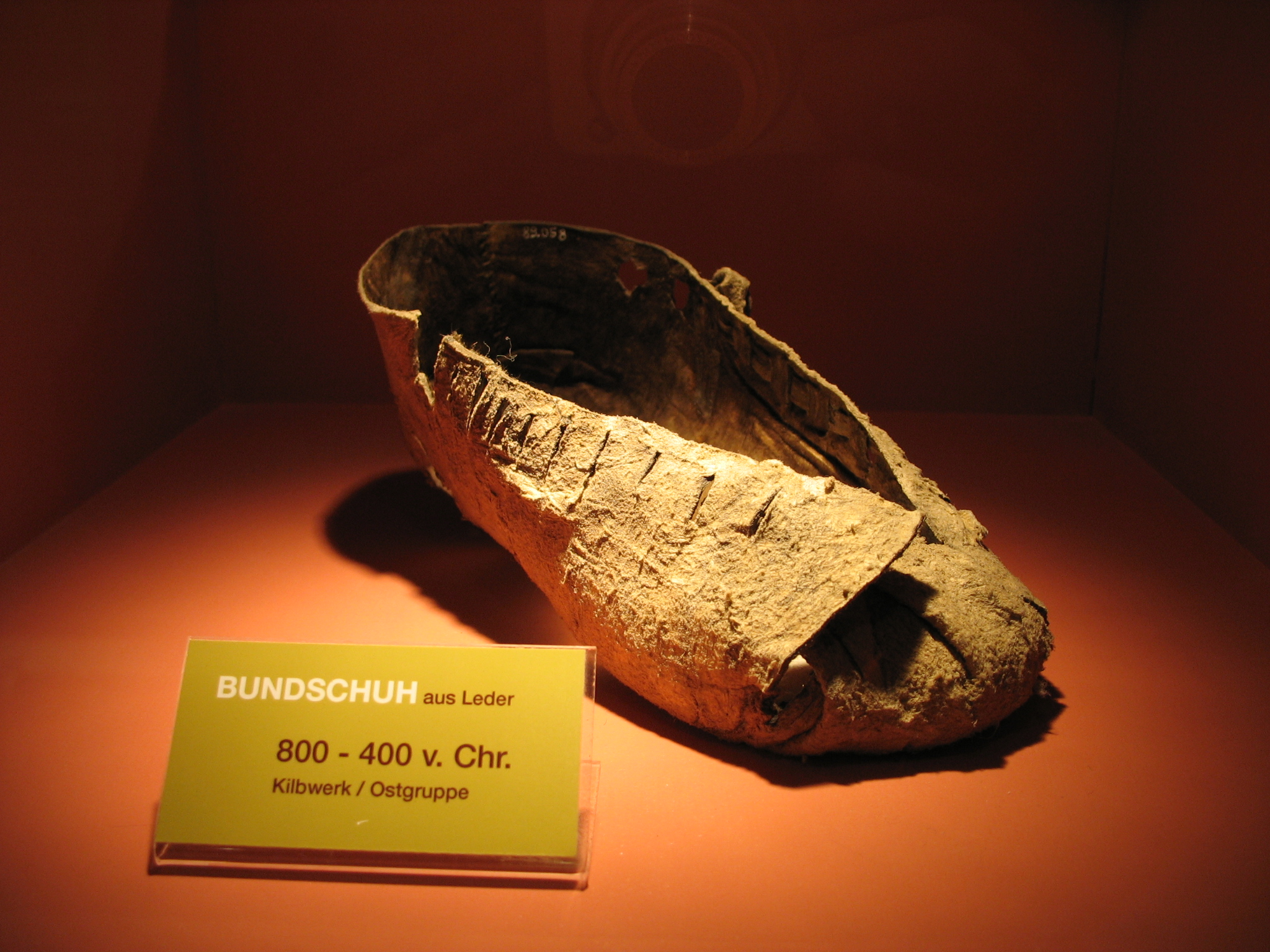 Leather shoes from the Hallstatt culture, 800-400 BC. Museum Hallstatt, Austria.